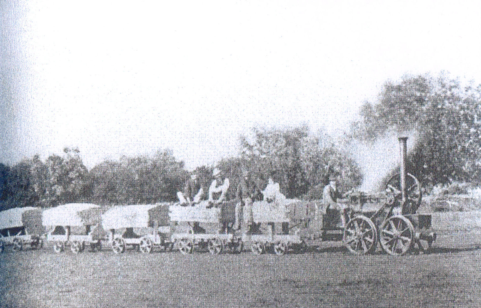 Coprolite train between Meldreth and Whaddon Station circa 1880 (Cambridge Collection)